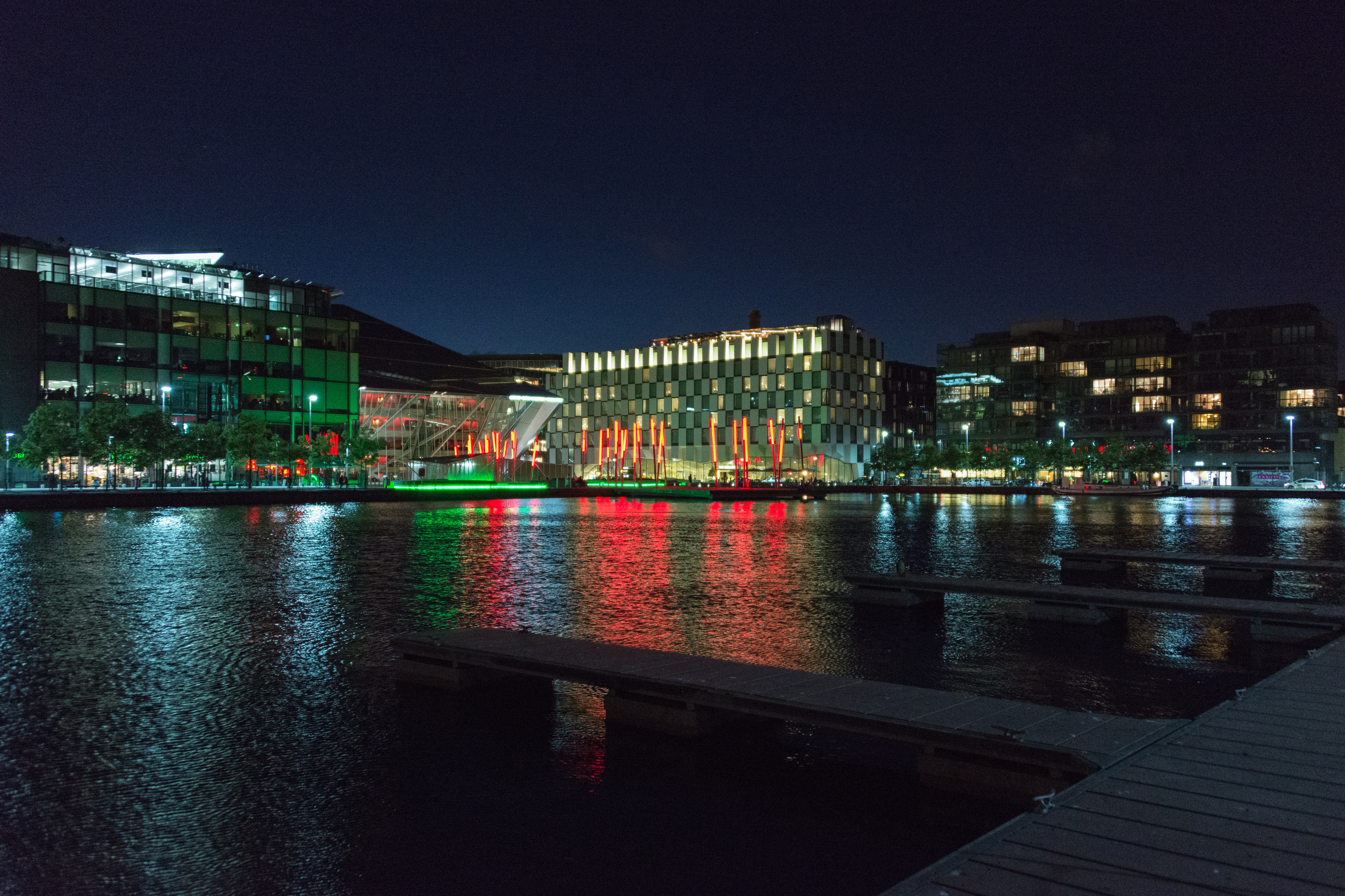 Grand Canal Dock at night - Dublin, Ireland